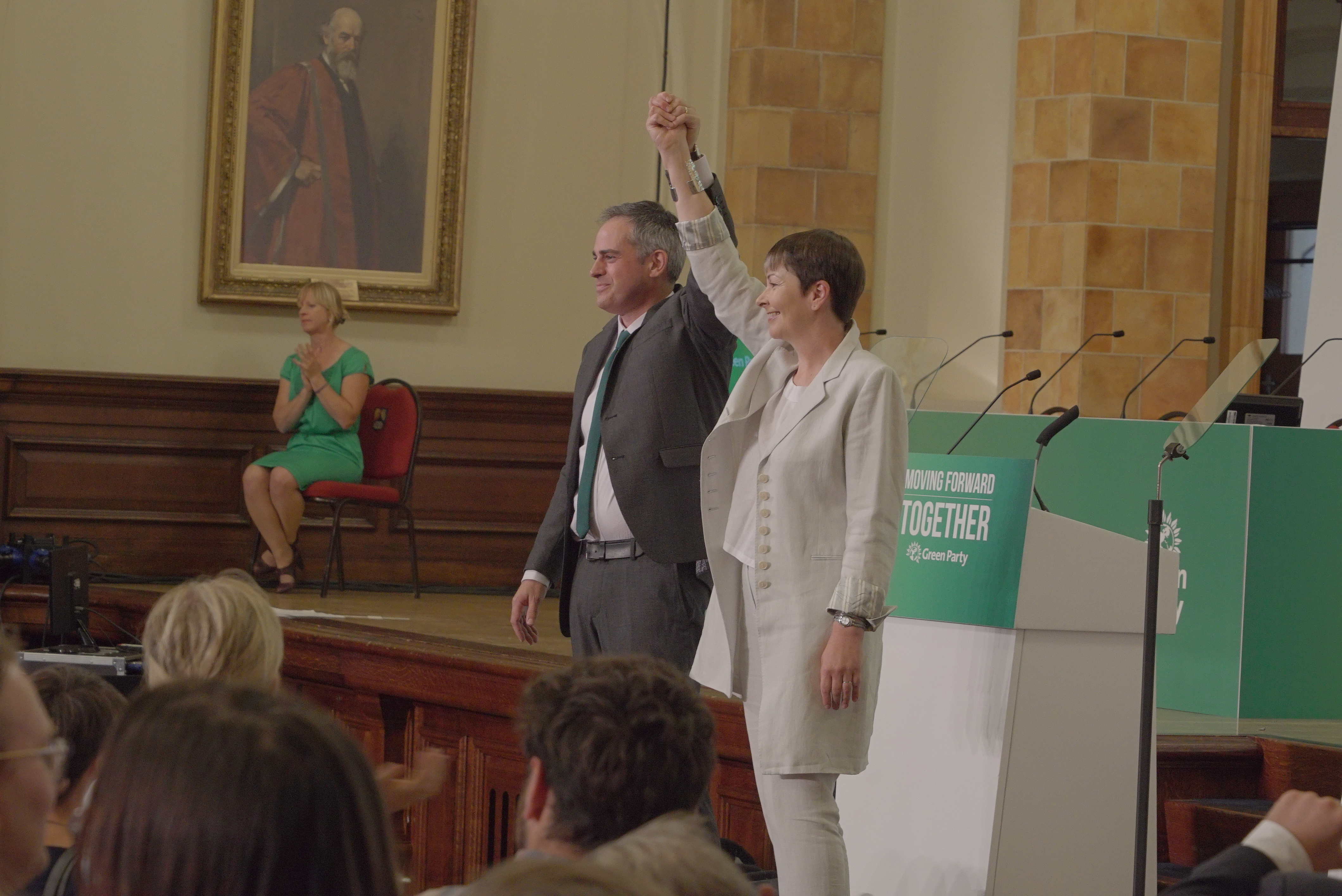 Jonathan Bartley and Caroline Lucas at the Green Party Conference.